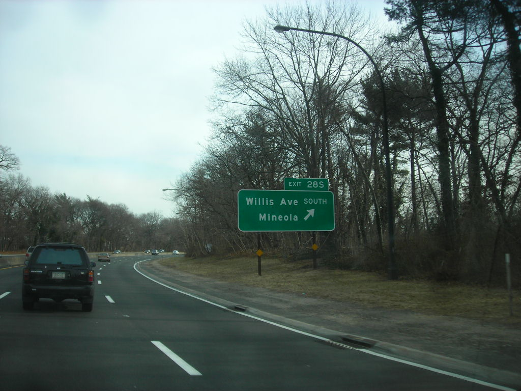 The Northern State Parkway approaching exit 28S in Mineola.